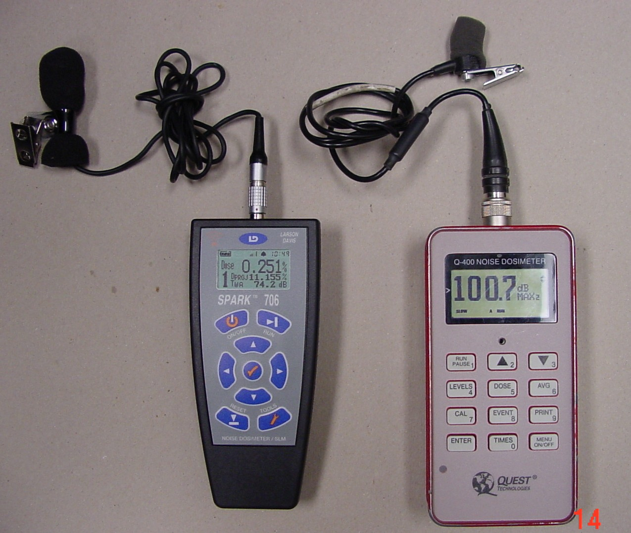 Personal noise dosimeters used to capture occupational noise exposures